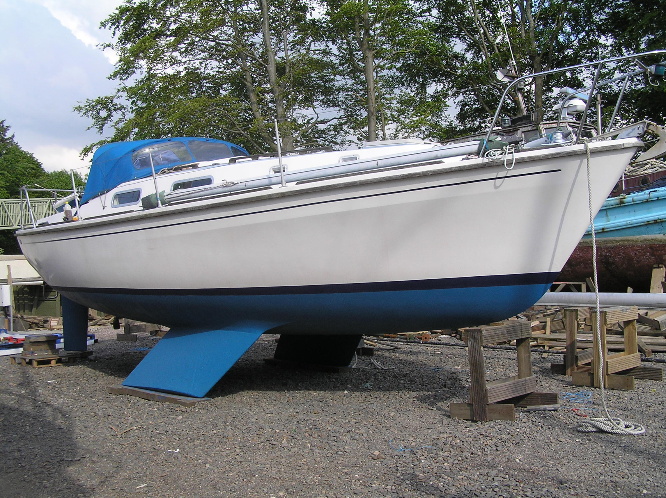 A twin-keeled Westerly Konsort. My own picture of my own boat.